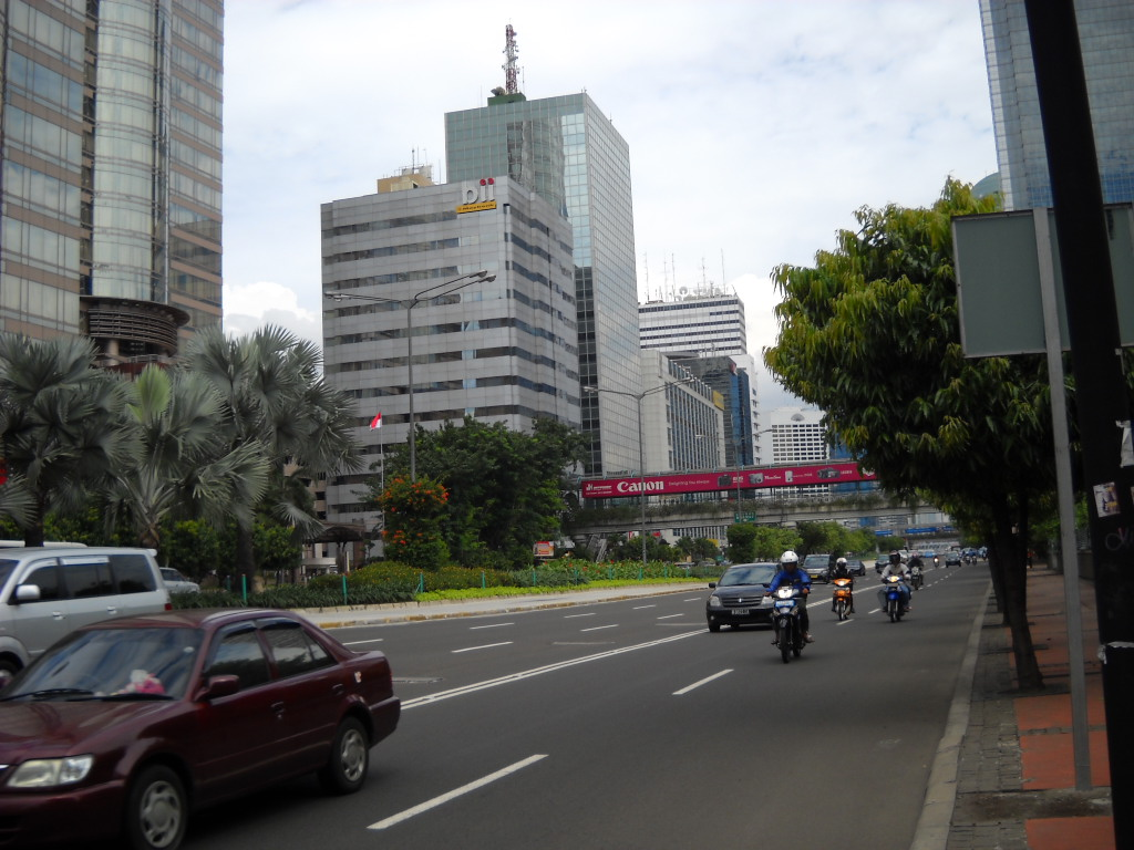 Jalan Thamrin in Central Jakarta.